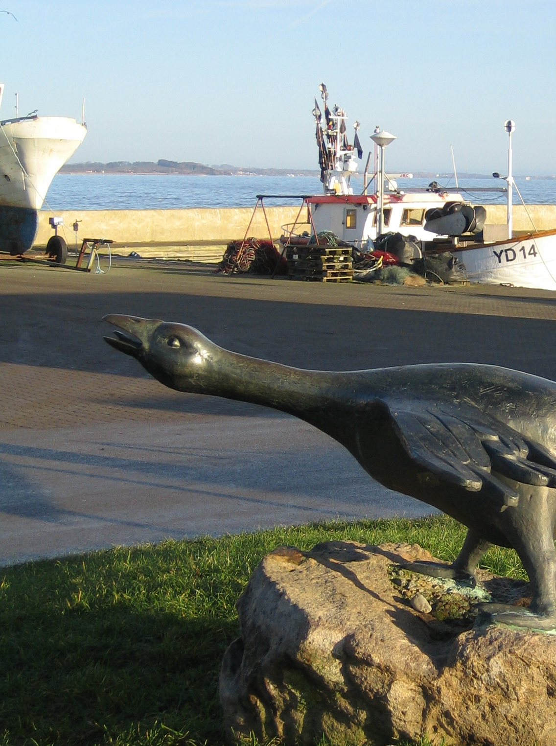 Goose sculpture at Abbekås harbour in Scania, Sweden.